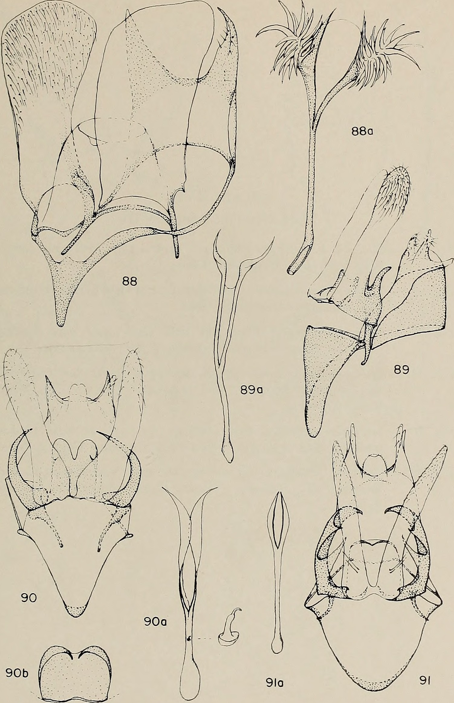 Title: Memoirs of the American Entomological Society Year: 1916 (1910s) Authors: American Entomological Society Subjects: Entomology Insects Publisher: Philadelphia, American Entomological Society Text Appearing Before Image: MEM. AMER. ENT. SOC, 28 128 TISCHERIIDAE OF AMERICA NORTH OF MEXICO Plate XV Male Genitalia: Sections II and III Figure 88 (Section II) twice the magnification of figures of Section III Fig. 88. — Tischeria admirabilis Braun, ventral view (aedeagus omitted);88a, aedeagus. Beaver Pond, Adams County, Ohio. Fig. 89. — Tischeria solidaginifoliella Clemens, lateral view (aedeagus omitted);89a, aedeagus. Cincinnati, Ohio. Fig. 90. — Tischeria astericola new species, paratype, ventral view (aedeagusomitted); 90a, aedeagus. Cincinnati, Ohio. Fig. 90b, a differentaspect of anellus. Balsam, North Carolina. Fig. 91. — Tischeria occidentalis new species, paratype, ventral view (aedea-gus omitted); 91a, aedeagus. Grand Teton National Park,Wyoming. ANNETTE F. BRAUN 129 Text Appearing After Image: MEM. AMER. ENT. SOC, 28 130 TISCHERIIDAE OF AMERICA NORTH OF MEXICO Plate XVIMale Genitalia: Section III Fig. 92. — Tischeria heliopsisella Chambers, ventral view (aedeagus omitted);92a, aedeagus. Cincinnati, Ohio Fig. 93. — Tischeria ambrosiaeella Chambers, ventral view (aedeagus omitted);93a, aedeagus. Cincinnati, Ohio. Fig. 94. — Tischeria helianthi Frey and Boll, semi-lateral view (aedeagusomitted); 94a, aedeagus. Kenton County, Kentucky. Fig. 95. — Tischeria gregaria new species, paratype, ventral view (right harpeand aedeagus omitted); 95a, aedeagus. Grand Teton NationalPark, Wyoming. Fig. 96. — Tischeria marginata new species, type, ventral view (aedeagusomitted); 96a, aedeagus. West Fork, Coconino County, Arizona. Fig. 97. — Tischeria pallidipennella new species, type, ventral view (aedeagusomitted); 97a, aedeagus. Madera Canyon, Santa Rita Mountains,Arizona. ANNETTE F. BRAUN 131